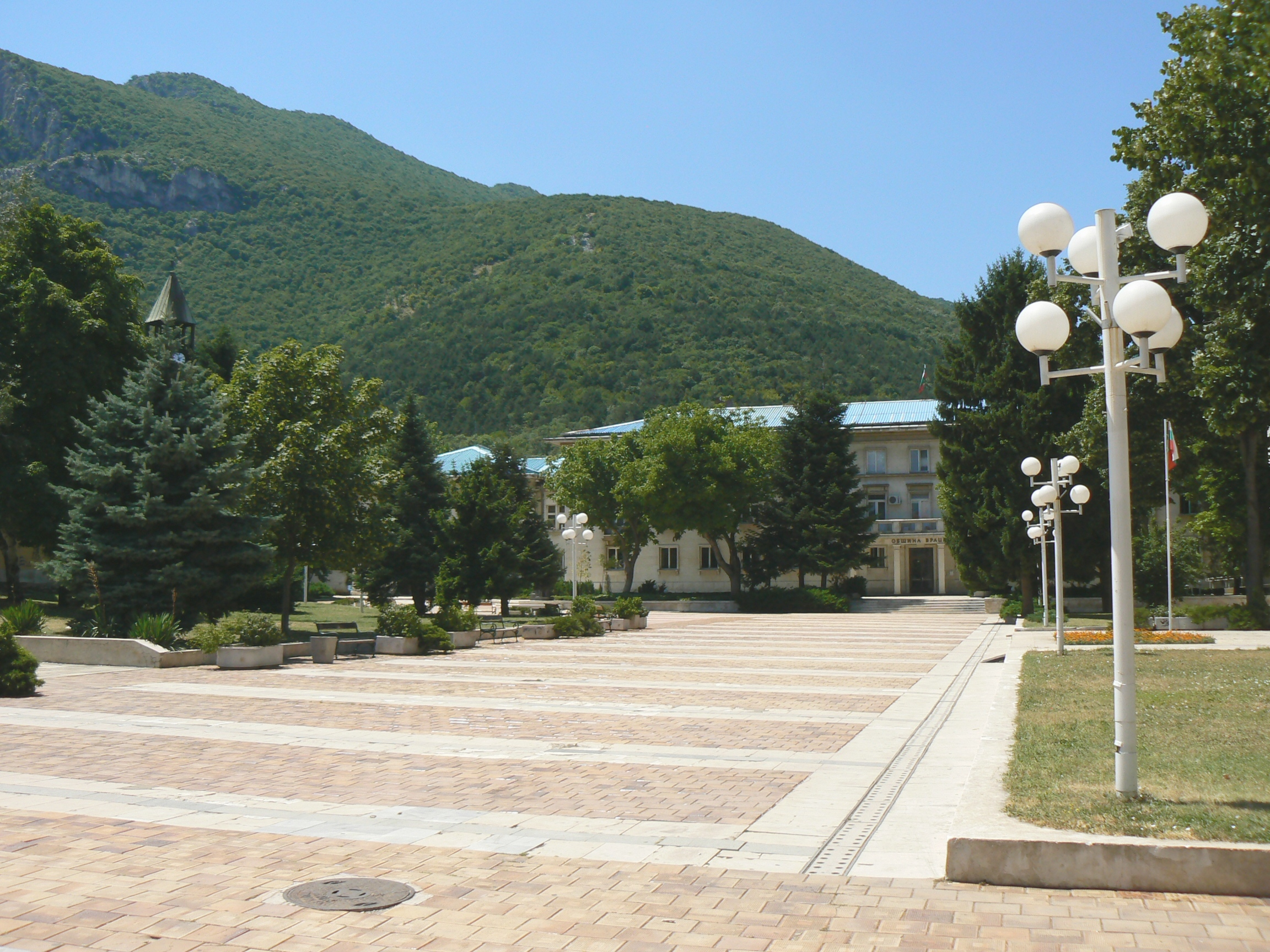 The building of Vratsa Municipality and the square in front of it. Vratsa, Bulgaria